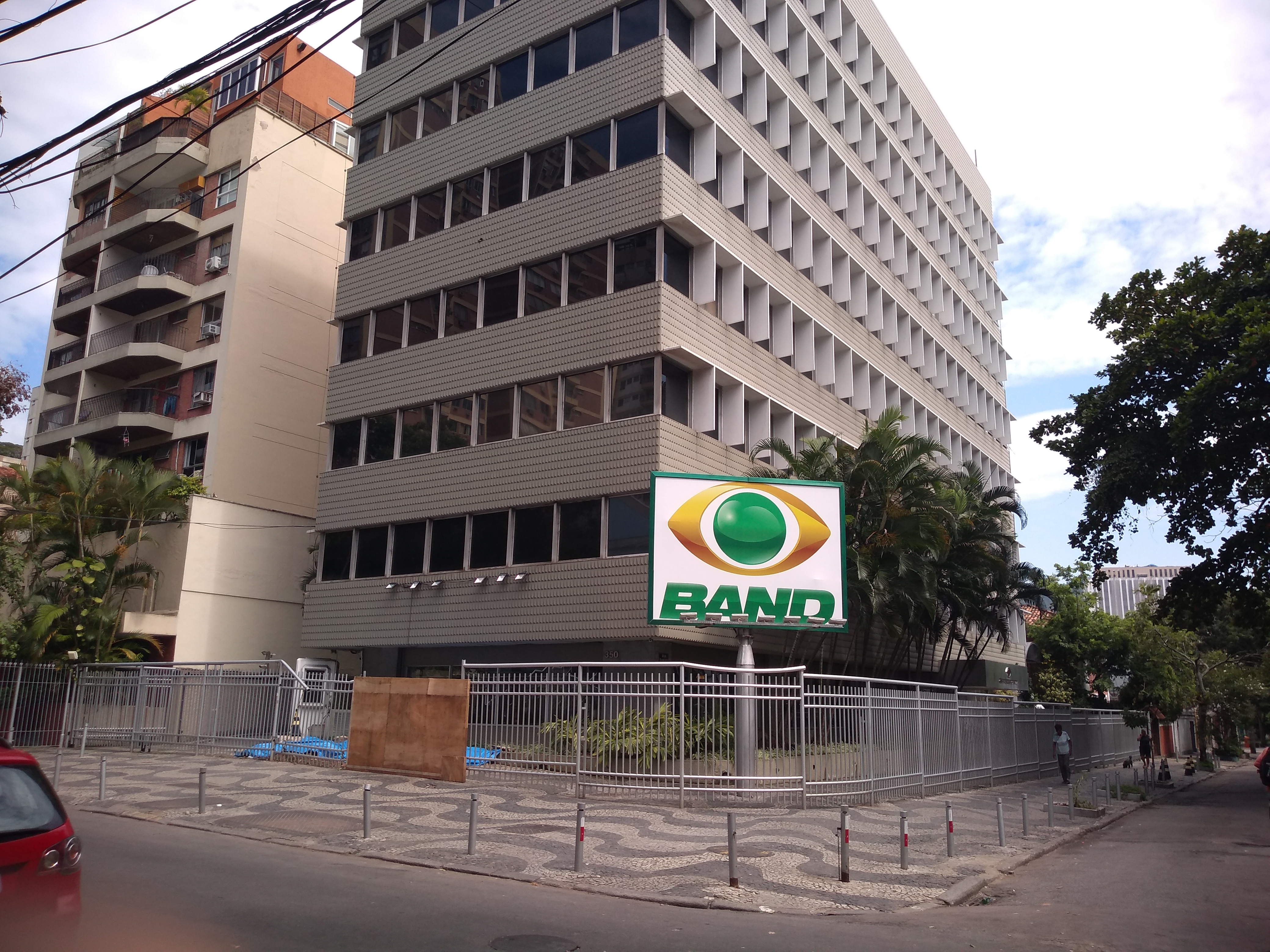 TV Bandeirantes - Rio de Janeiro is a television station located in the district of Botafogo, South Zone of Rio de Janeiro. It was founded in 1977 by businessman João Jorge Saad, owner of TV Bandeirantes of São Paulo.